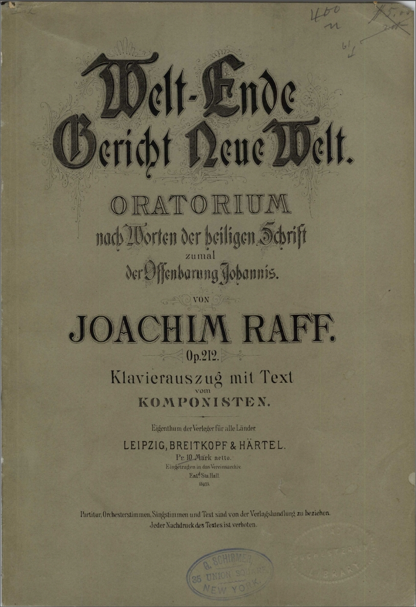 Joachim Raff: Oratorio "Welt-Ende - Gericht - Neue Welt", Cover of the Score, 1882